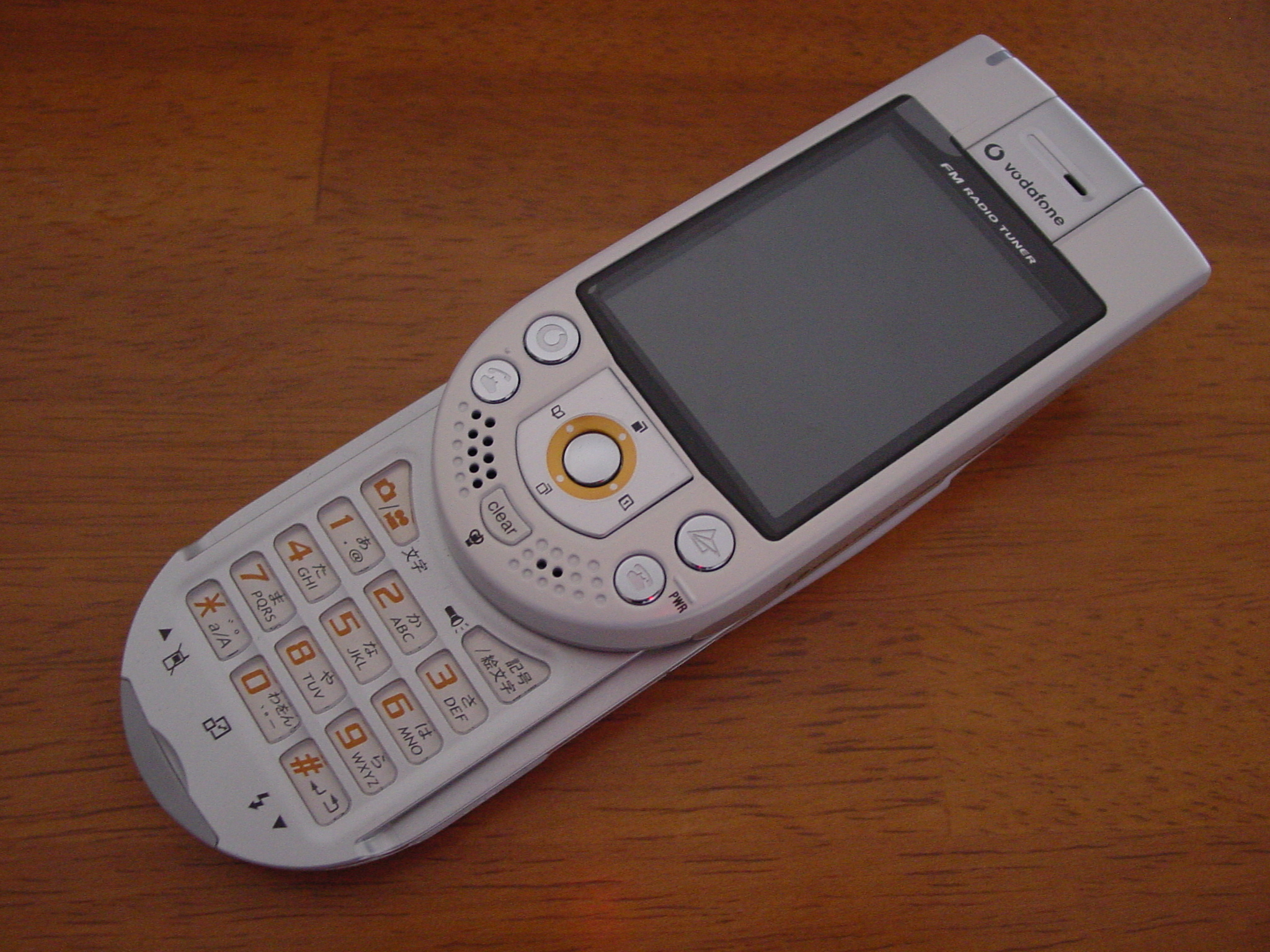 Vodafone Japan (now SoftBank Mobile) V401SA mobile phone by Sanyo, Spray White.